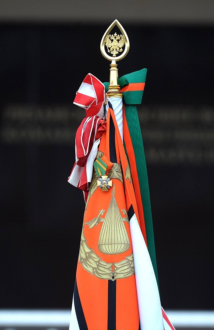 Banner of the Ryazan Higher Airborne Command School with the Order of Suvorov. 15 Nov 2013.